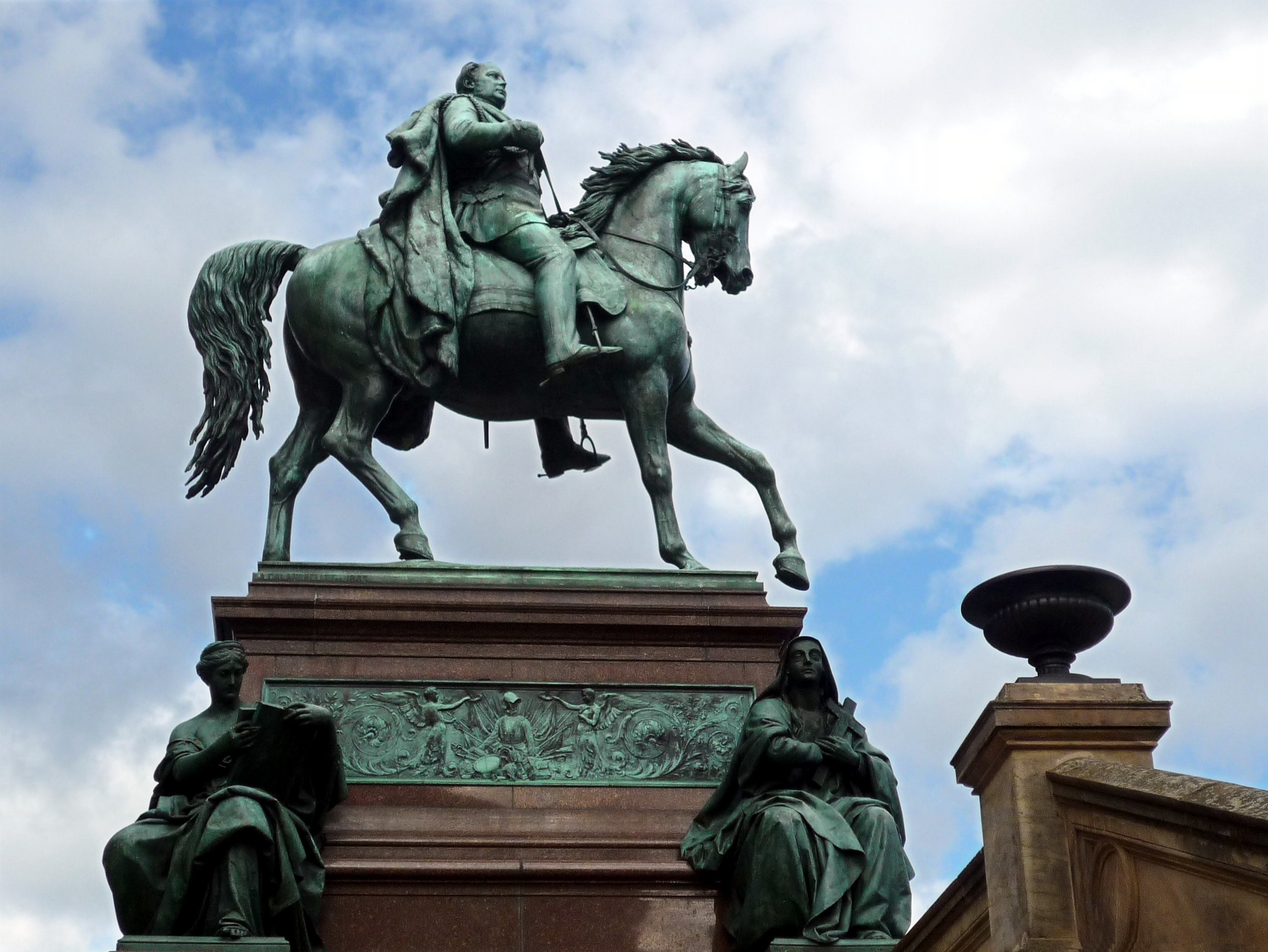 Berlin, Museumsinsel. Equestrian statue of Friedrich Wilhelm IV., king of Prussia, in front of the Alte Nationalgalerie (Old National-Gallery).Sculptor: Alexander Calandrelli, 1886.